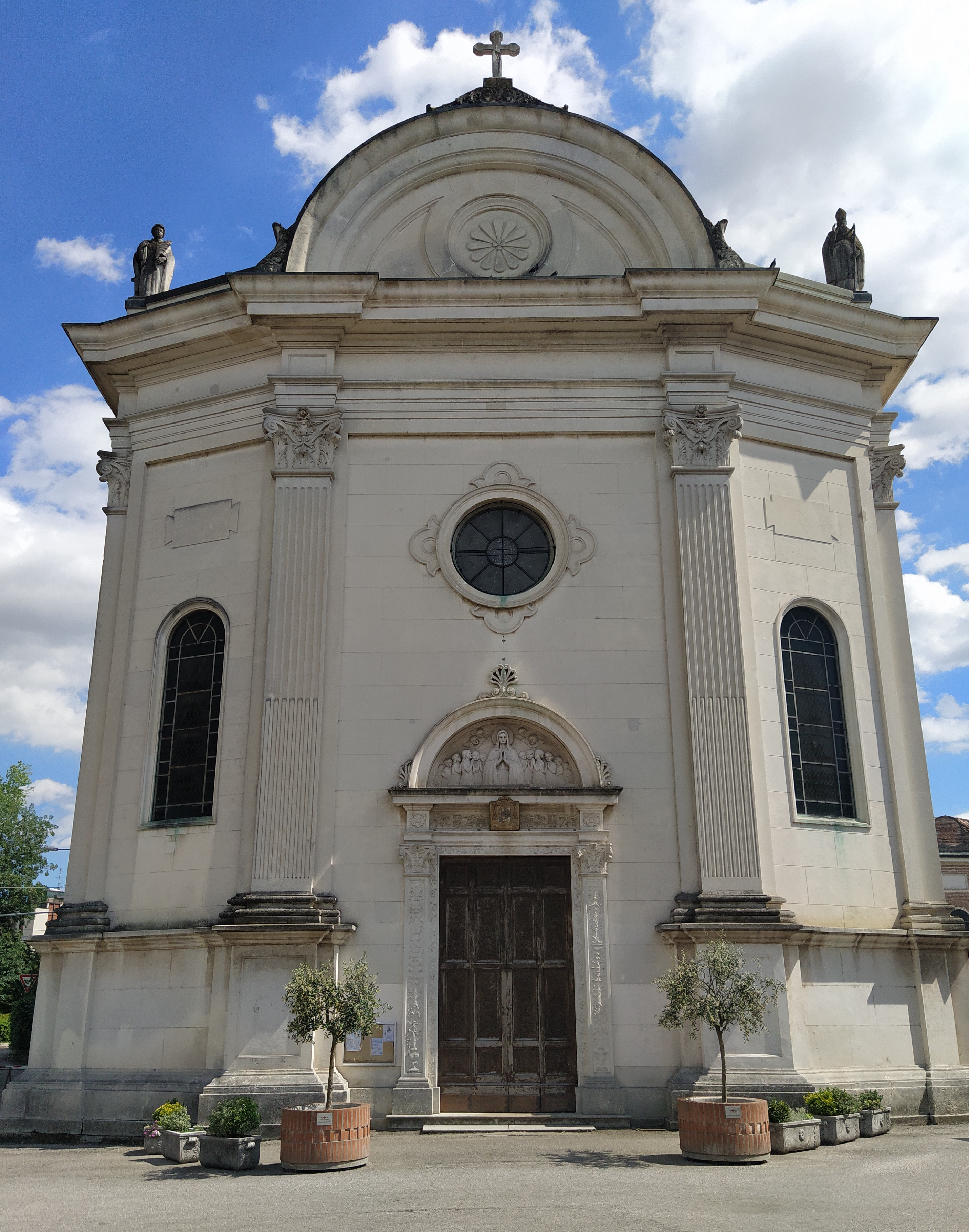 Facciata della chiesa di Santa Maria Assunta a Padova